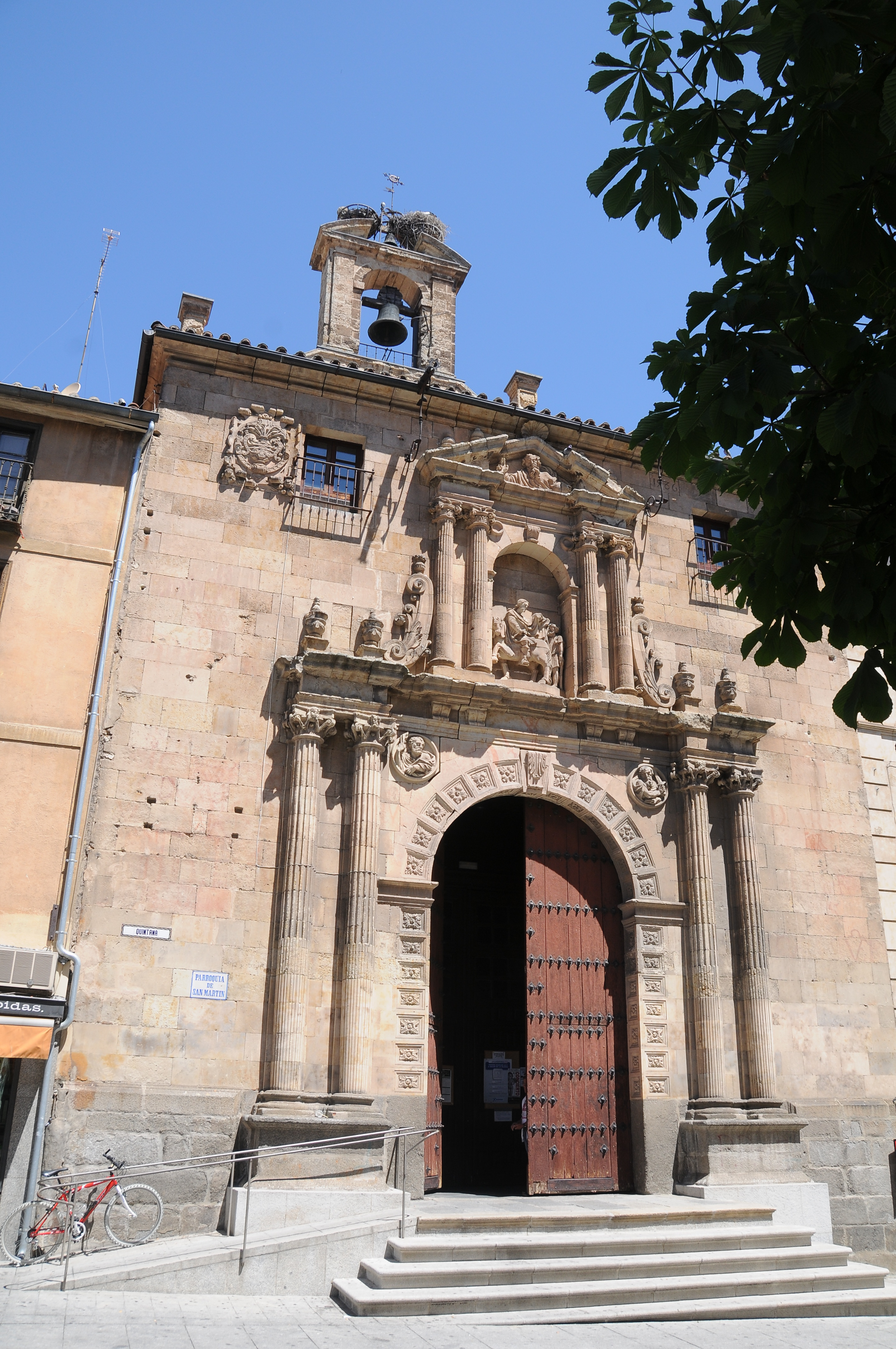 St Martin Church in Salamanca, Spain